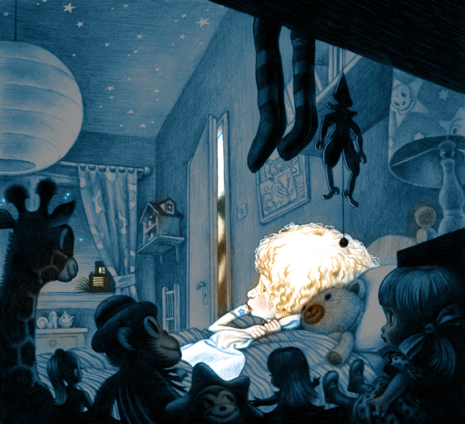 Illustration by David Polonsky